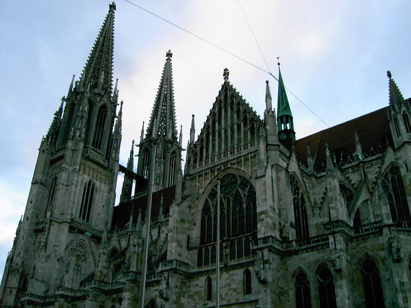 Photograph of Regensburg Cathedral St. Peter